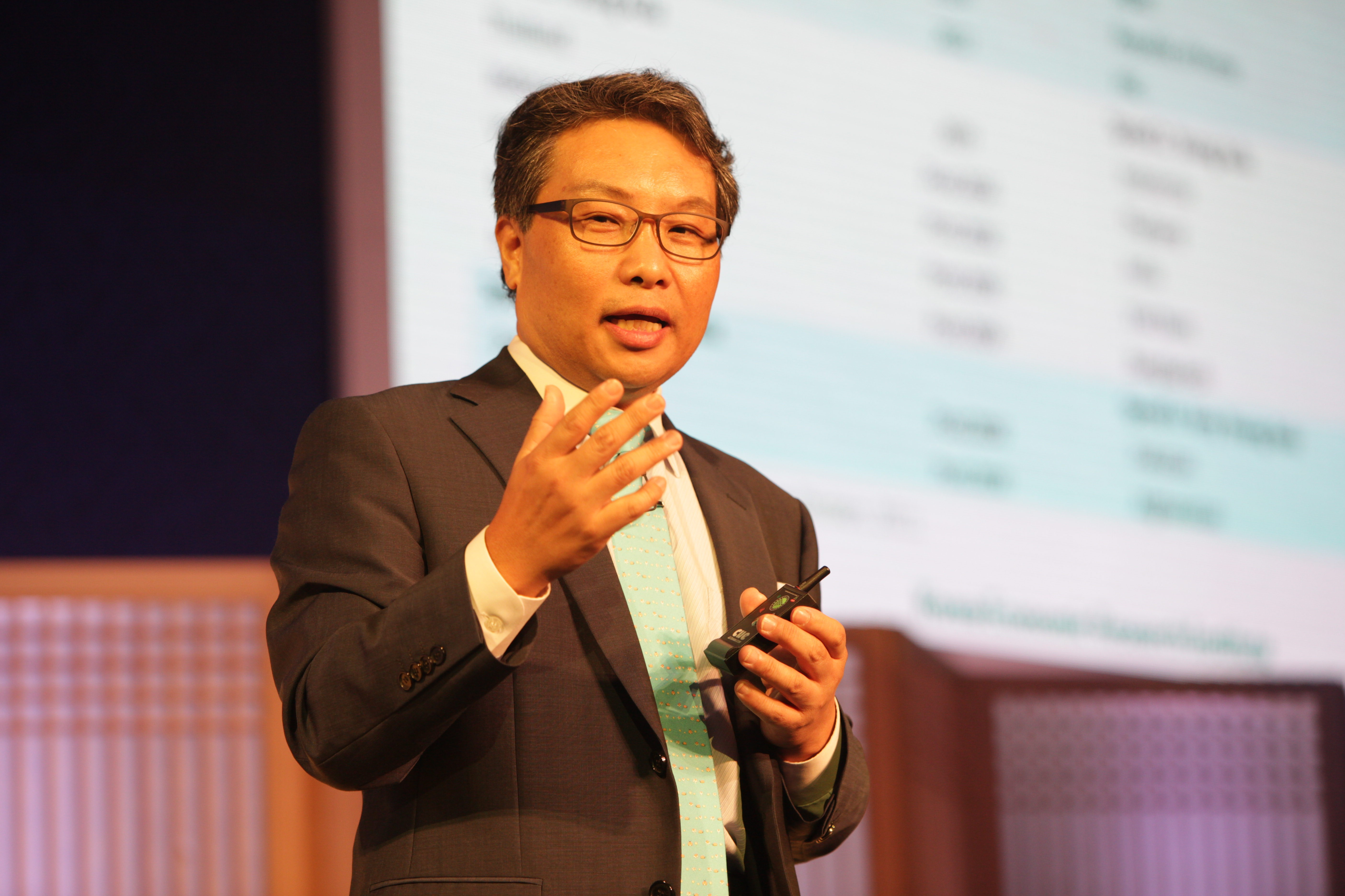 Byung-il CHOI, President & CEO Korea Economic Research Institute, addressing the WTTC Asia Summit on "Asia - Powerhouse of the World Economy"